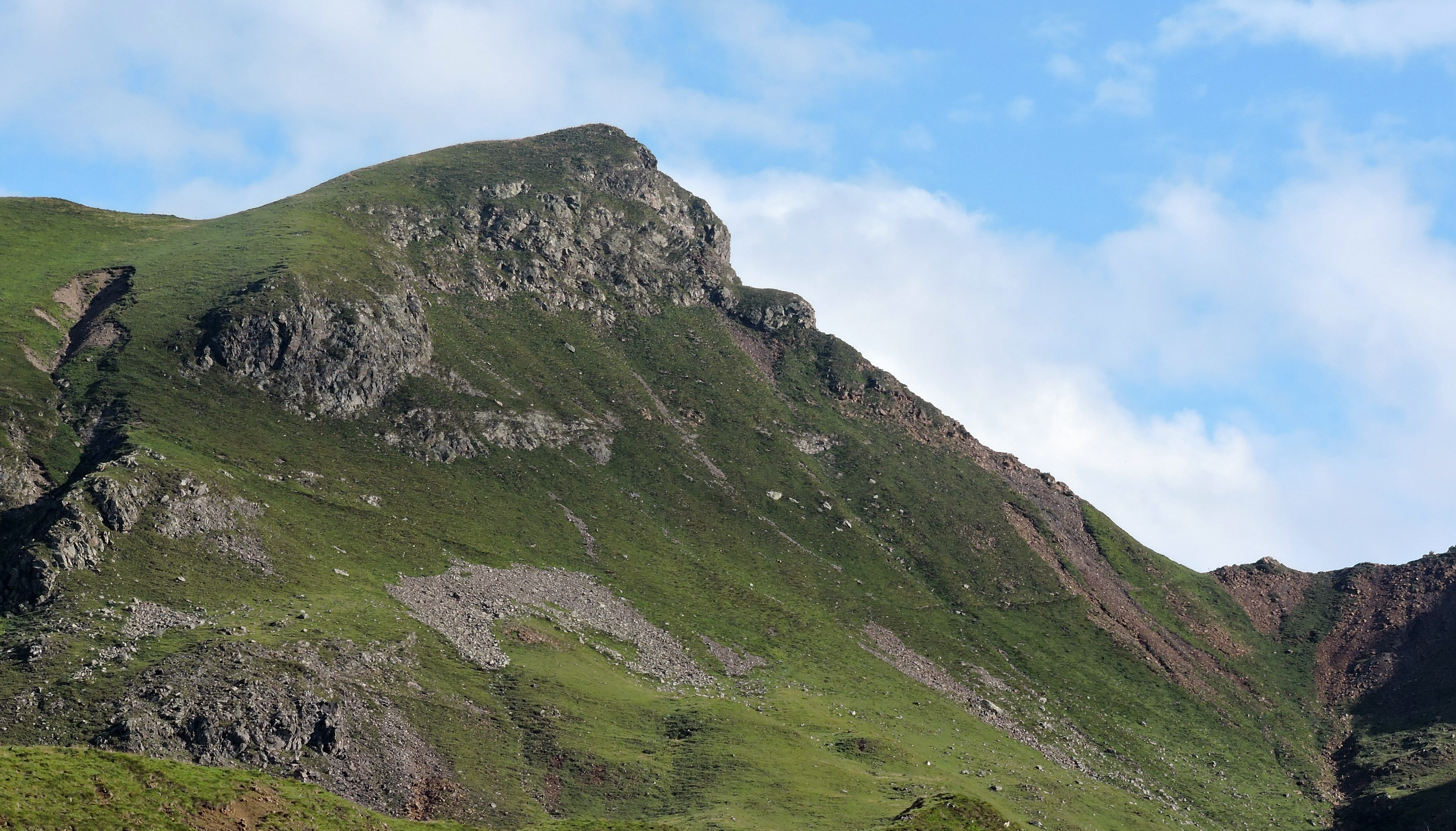 Monte Capio (Pennine Alps, Italy): Valsesia slopes, on its right Rossi pass